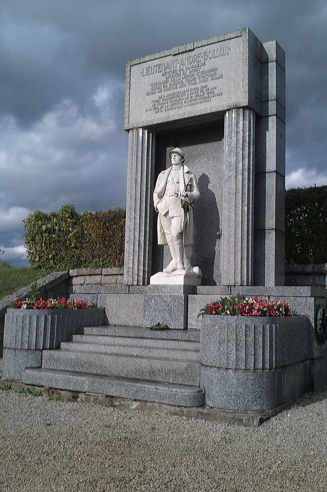 Made of white marble by sculptor Charles Georges Cassou (1925), this monument dominates the cemetery of Aubenton. Lieutenant Andre Bouxin has been killed in Syria during an operation against Druze fighters.